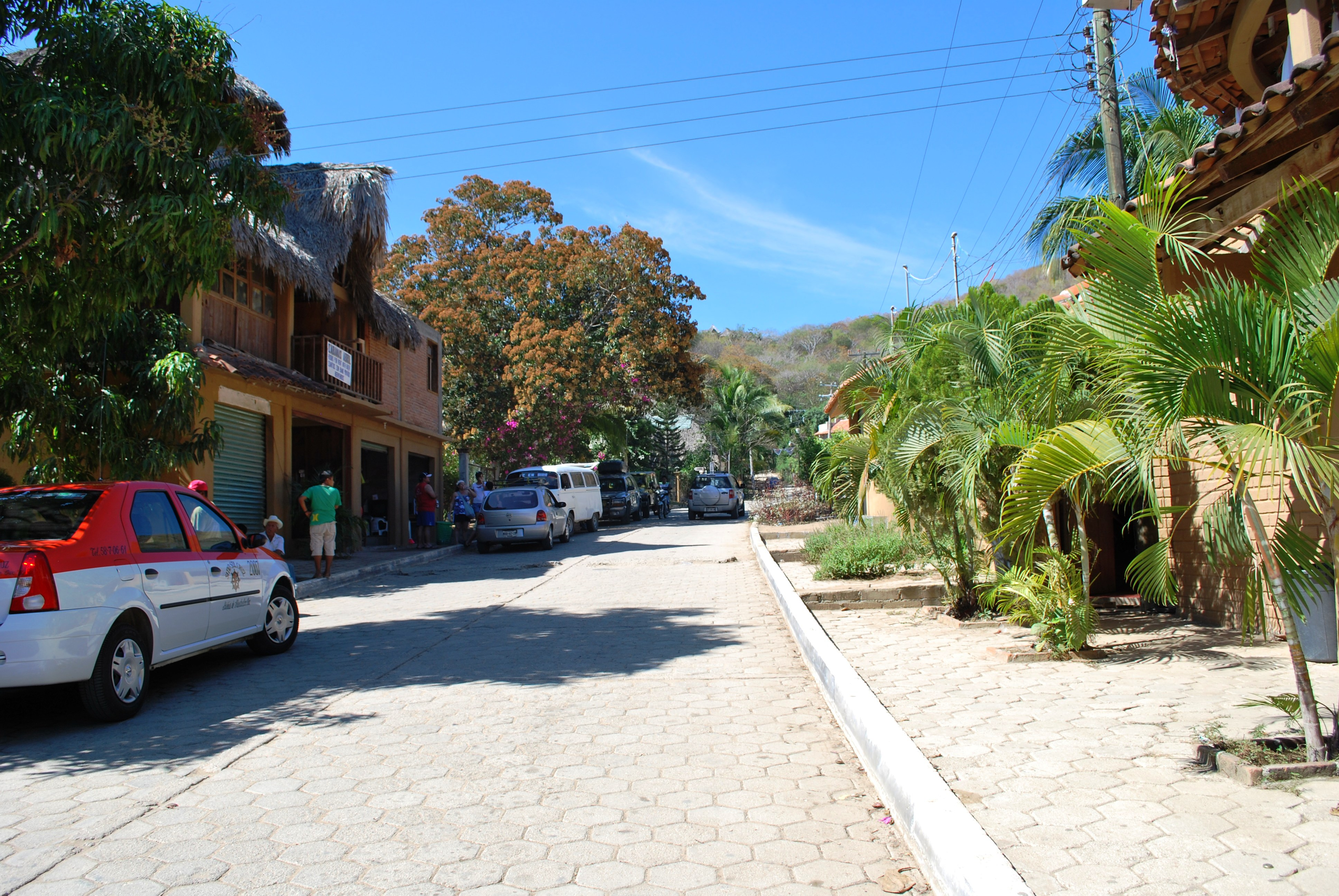 Main street of Mazunte, Oaxaca, Mexico near the Mazunte Cosmetics company